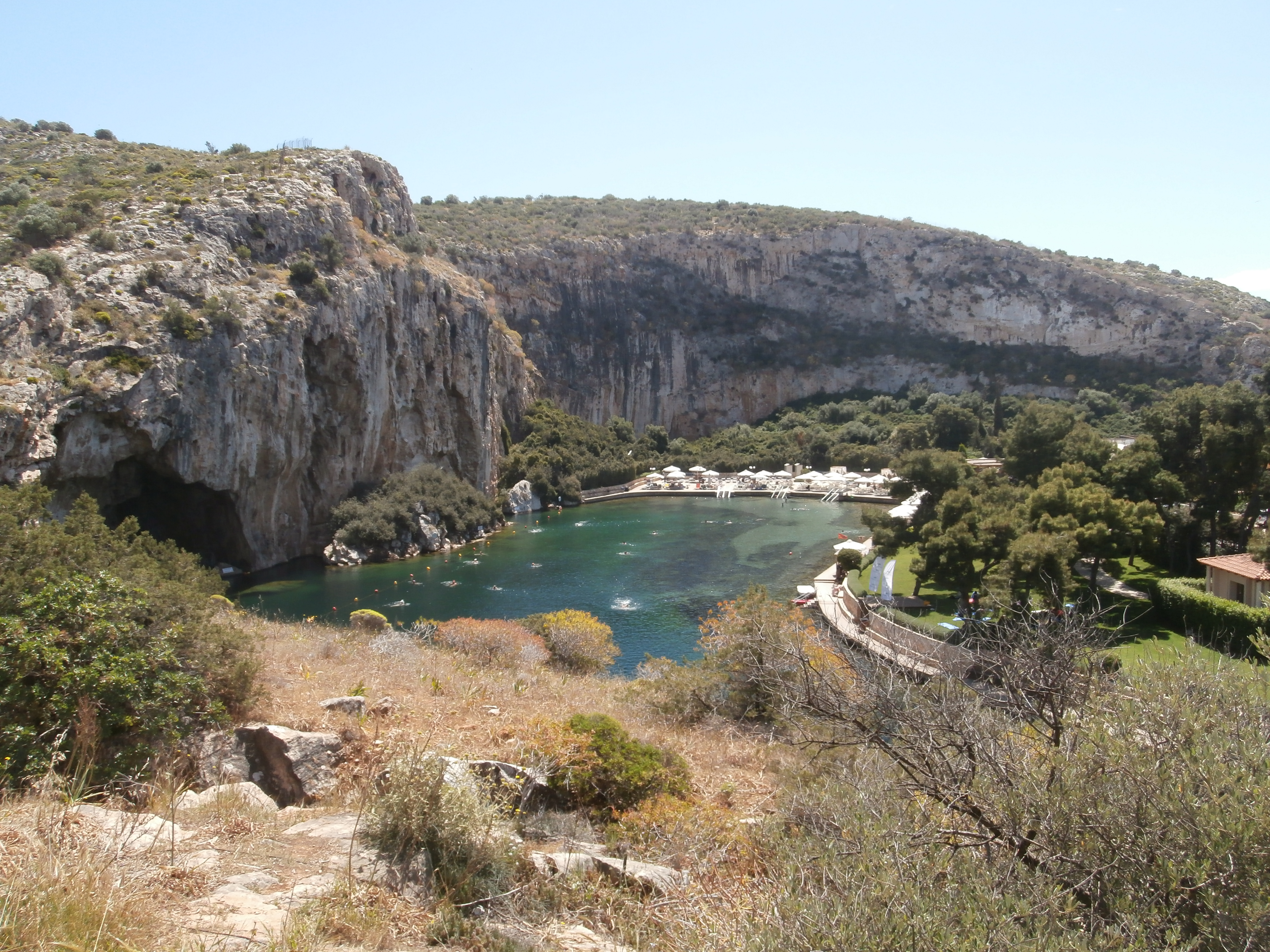 Vouliagmenis lake